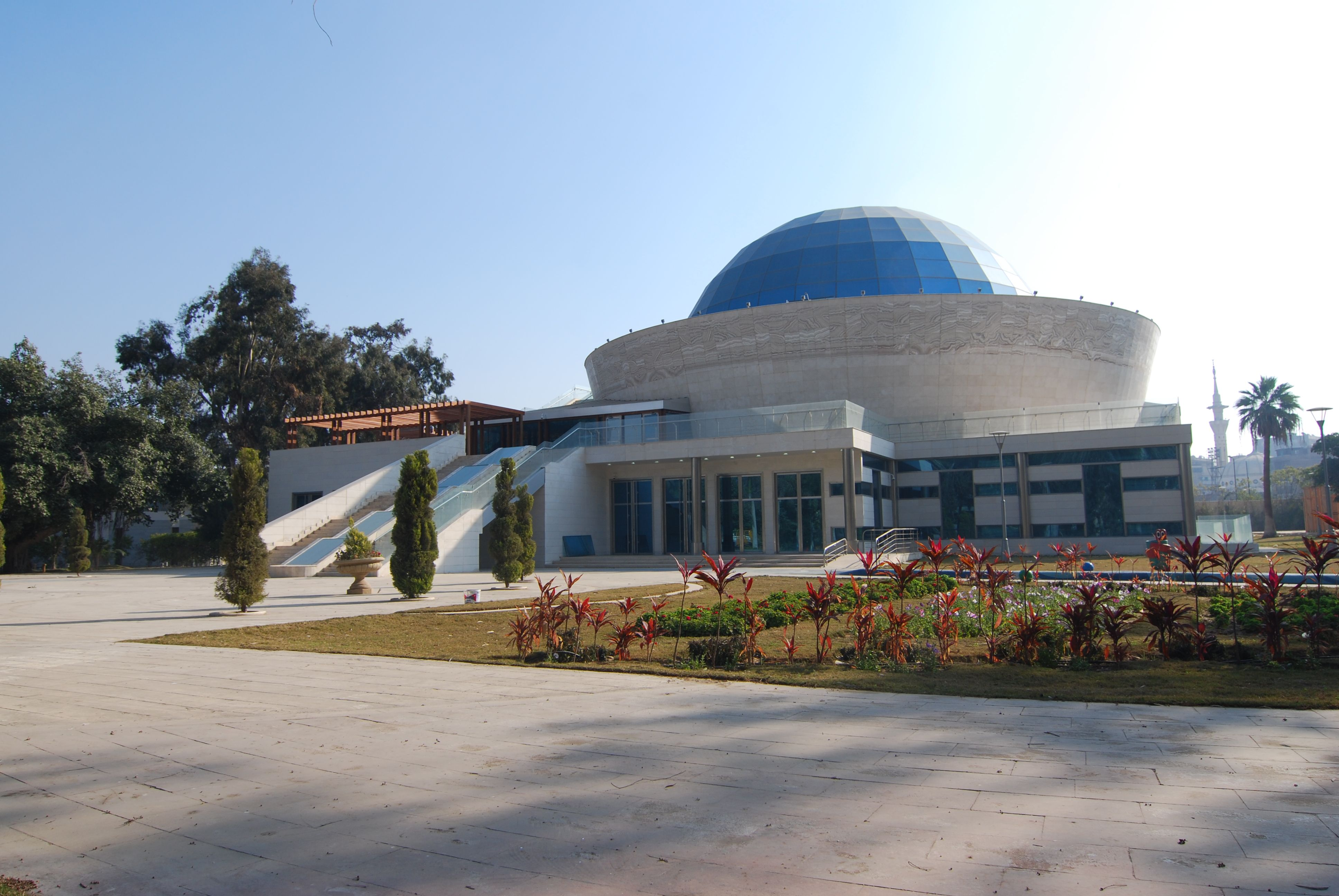 Front Elevation of Children's Civilisation and Creativity Centre